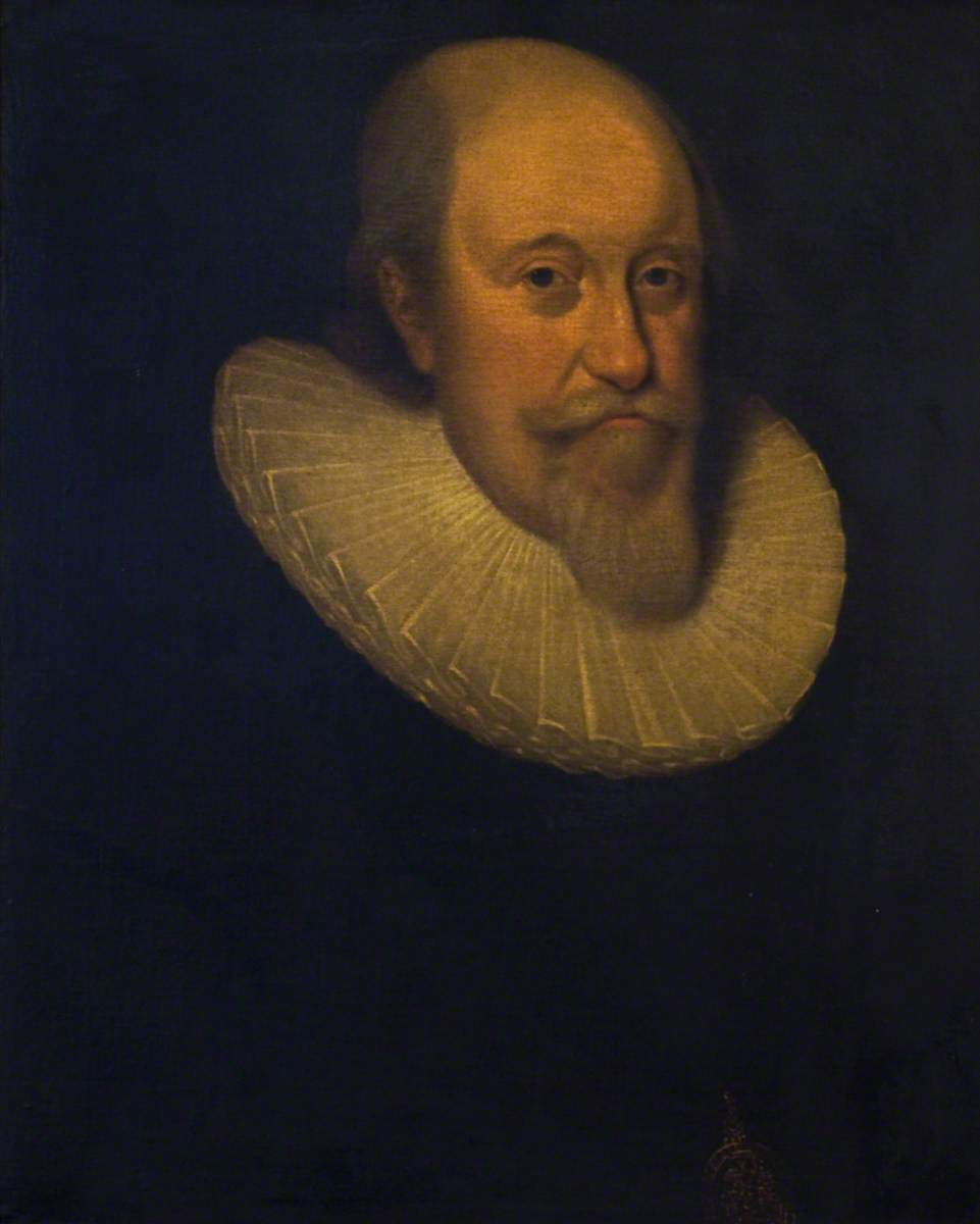 John Erskine, 2nd Earl of Mar, K.G., High Treasurer of Scotland (1562-1634), bust-length, in a white ruff, with a pendant.